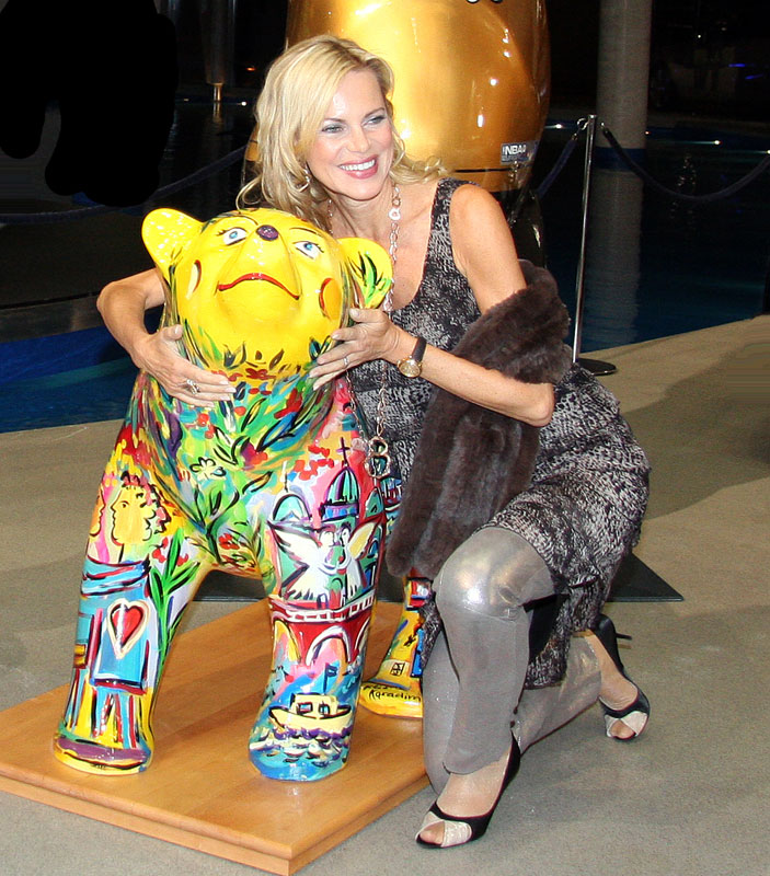 Nina Ruge UNICEF-Charity, Buddy Bear design by Klio Karadim